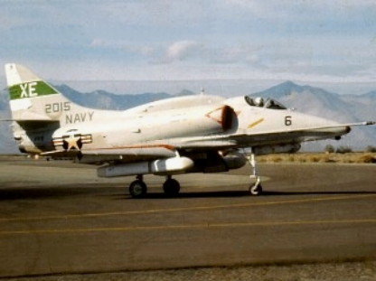 A U.S. Navy Douglas A-4E Skyhawk (BuNo 152015) from Air Test and Evaluation Squadron 5 (VX-5), carrying a ZAP rocket pod at NAWC China Lake, 19 January 1970.